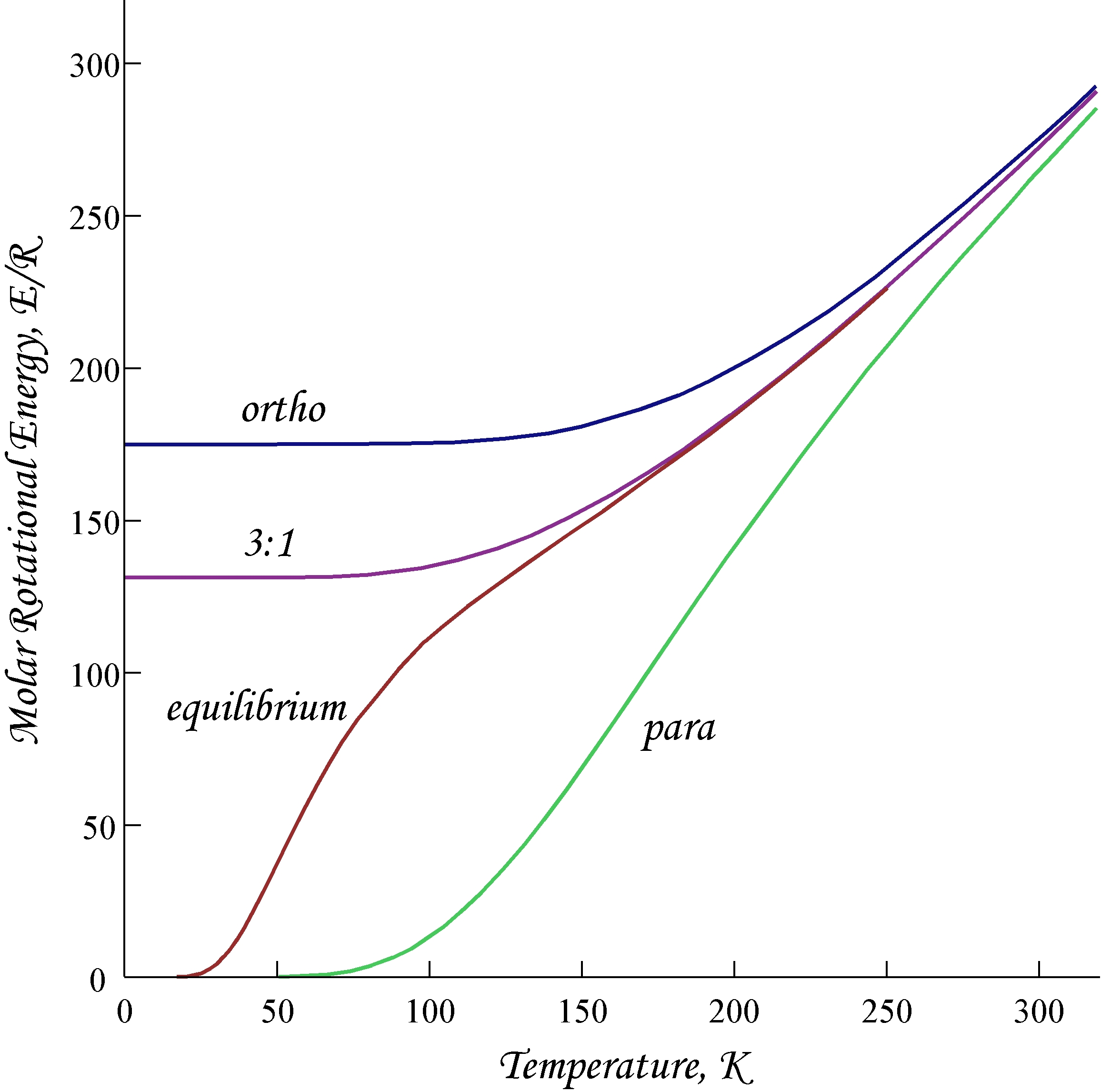 The molar energies of ortho- and parahydrogen and two significant mixtures. The equilibrium mixture is that obtained when a catalyst is present to allow for ortho-para interconversion. 3:1 is the ortho:para ratio at room temperature that will persist if no catalyst is present during cooling.